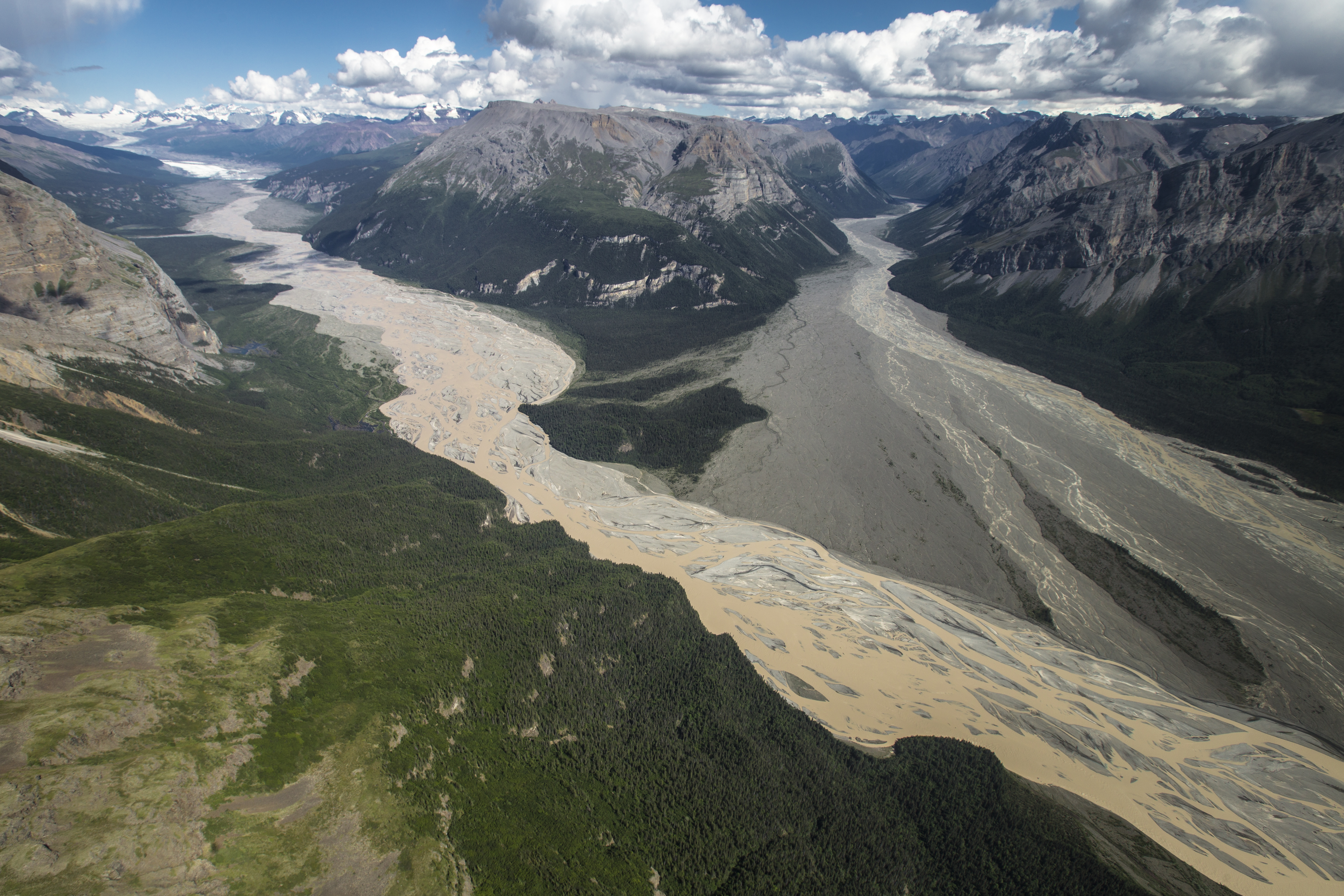 NPS / Jacob W. Frank Flight paths